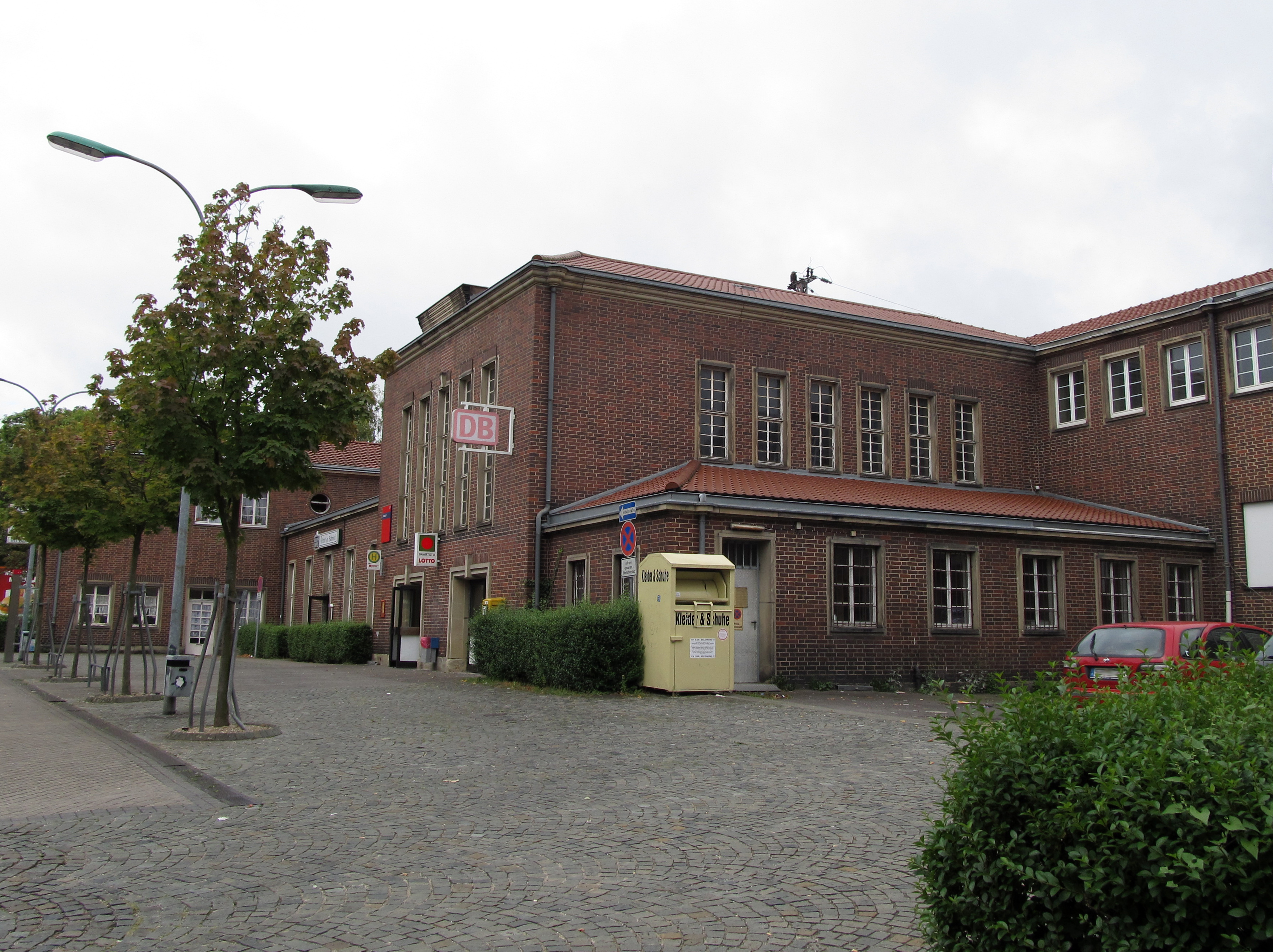 Train station of Sulzbach in Saarland